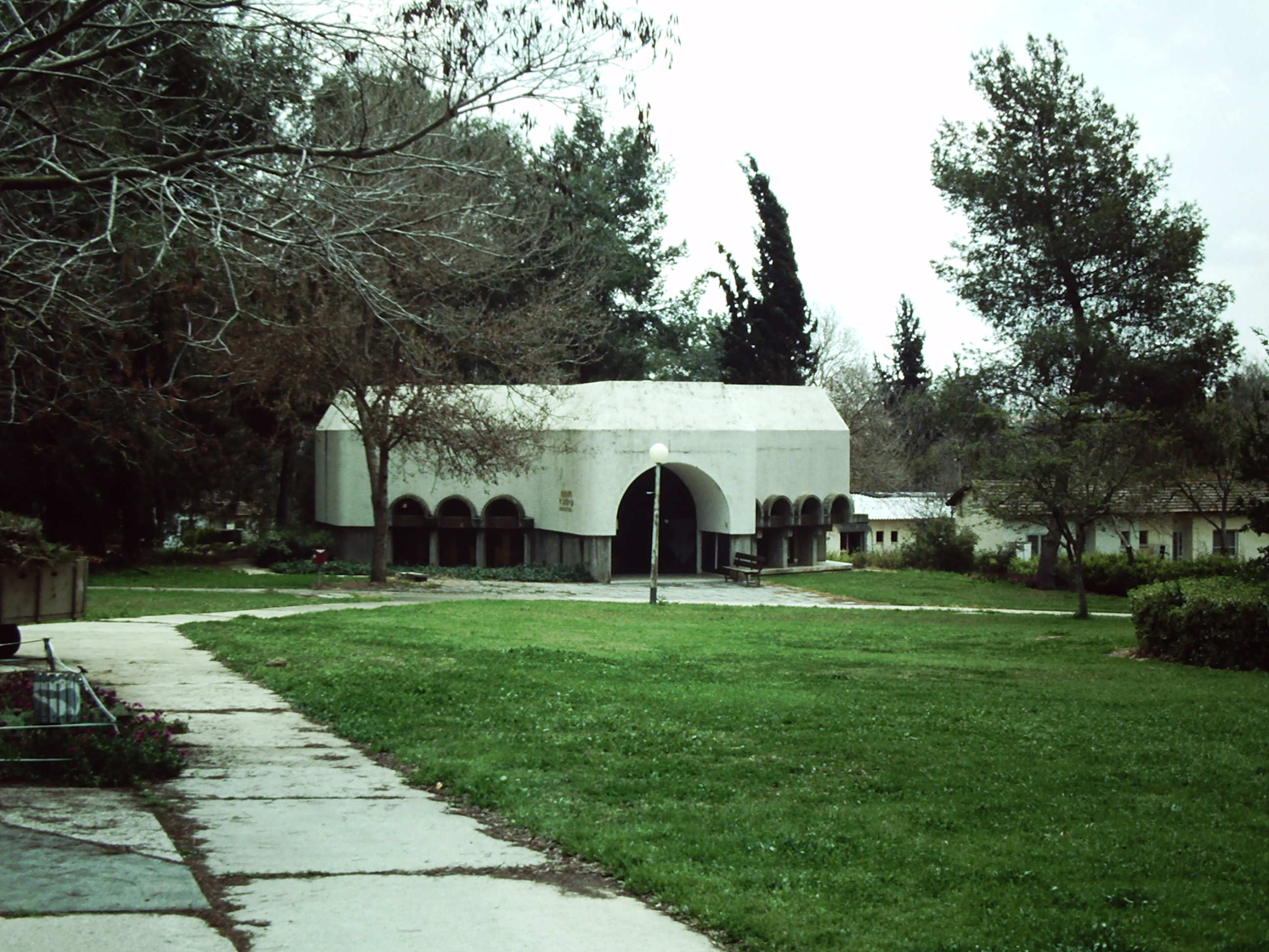 Synagogue, Kibbuz Bror Hayil